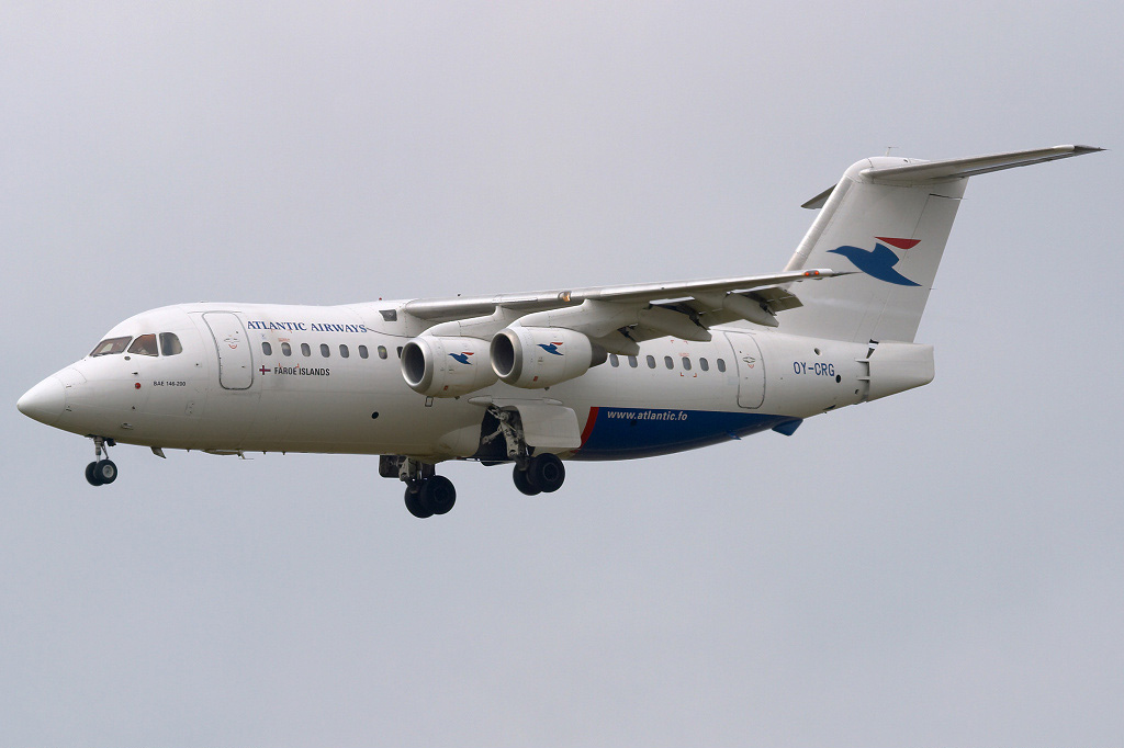 OY-CRG (cn E2075) This aircraft crashed in Stord, Norway on 10/10/2006. RIP all the victims. Photo taken at Copenhagen - Kastrup (CPH / EKCH) on Denmark, July 24, 2004. Photographer Janne Laukkonen. Summary OY-CRG (cn E2075) This aircraft crashed in Stord, Norway on 10/10/2006. RIP all the victims. Photo taken at Copenhagen - Kastrup (CPH / EKCH) on Denmark, July 24, 2004. Photographer Janne Laukkonen.